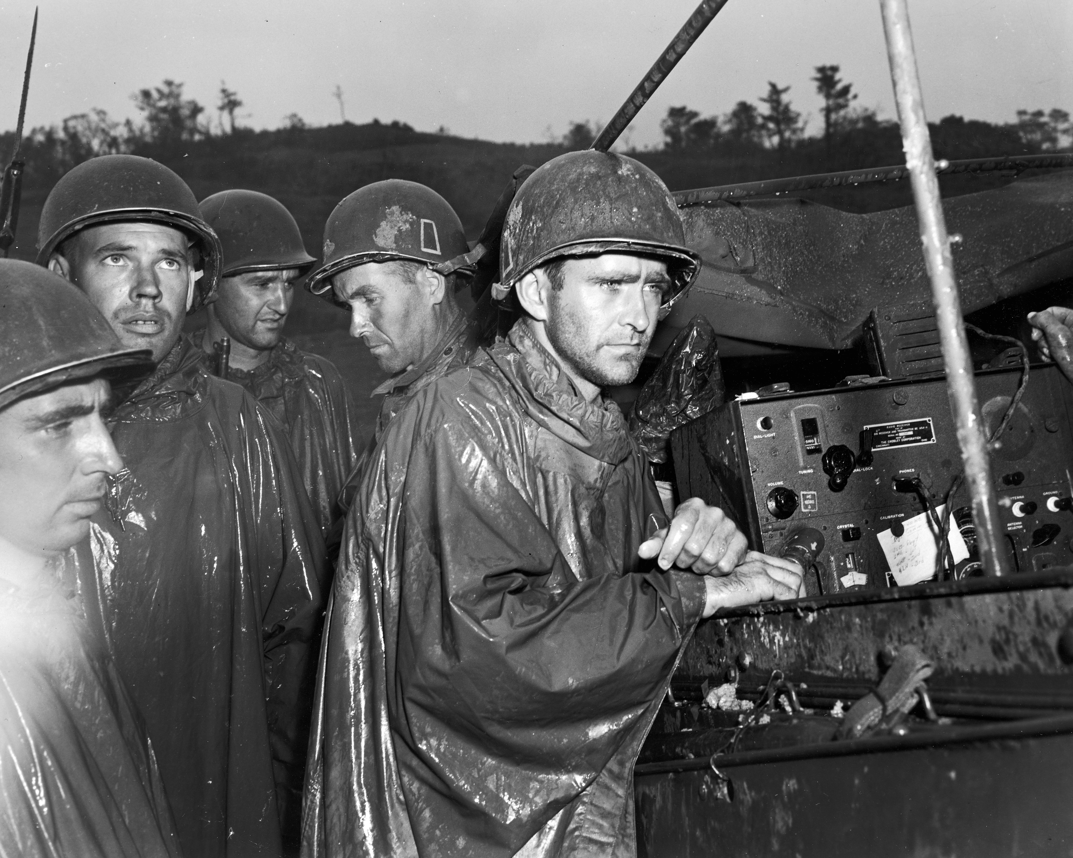 A few yards behind the front lines on Okinawa, fighting men of the US Armys 77th Infantry division listen to radio reports of Germanys surrender on May 8, 1945. Their battle hardened faces indicate the impassiveness with which they received the news of the victory on a far distant front. One minute after this photo was taken, they returned to their combat post, officially however, American forces on Okinawa celebrated the end of the war in Europe by training every ship and shore battery on a Japanese target and firing one shell simultaneously and precisely at midnight. Okinawa is a strategic island in the Ryukyu (Loochoo chain), situated 375 miles from Japan.